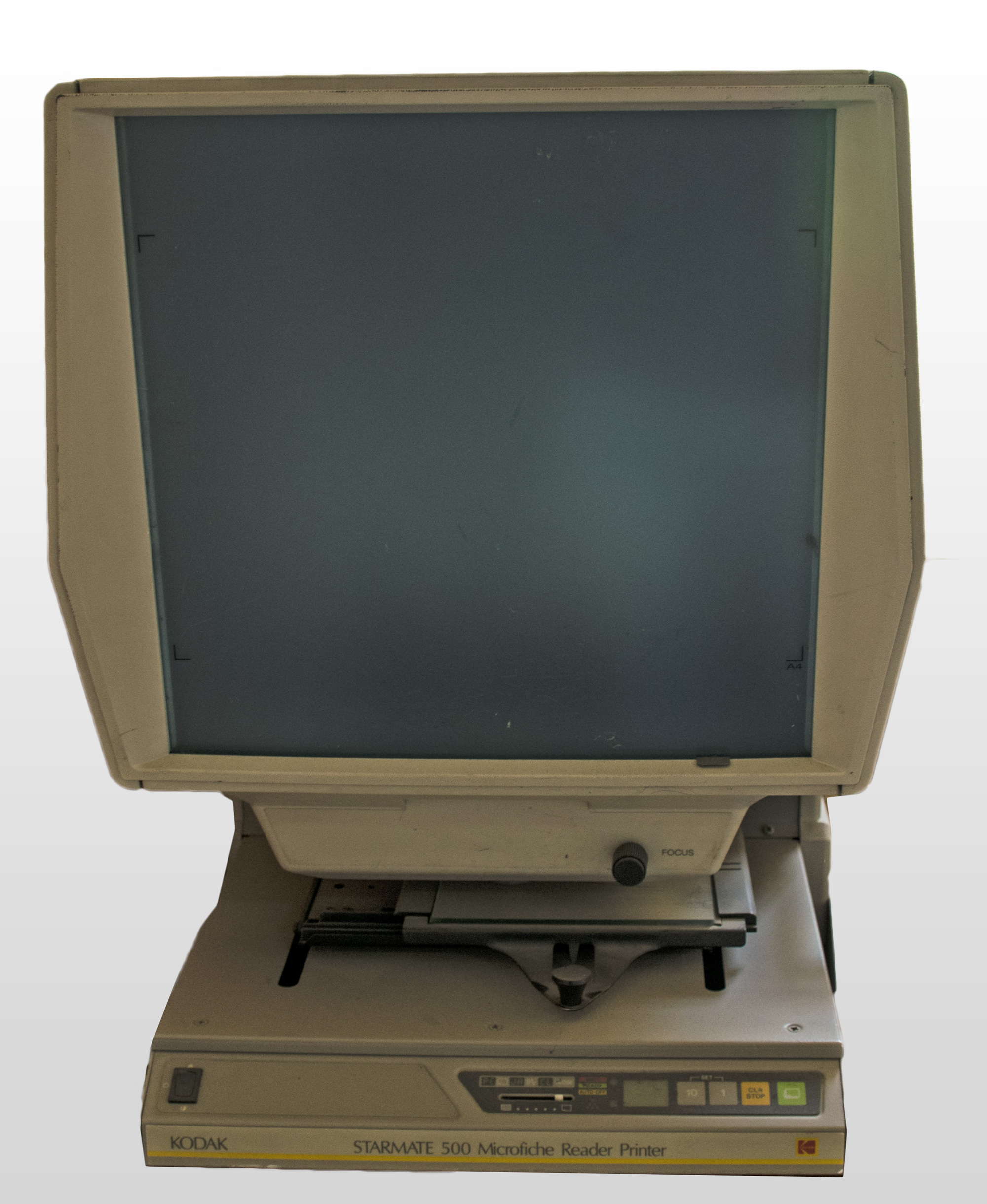 Microfiche device